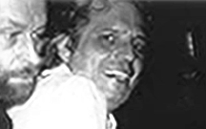 Jörg Schlick (rechts, mit Martin Kippenberger)